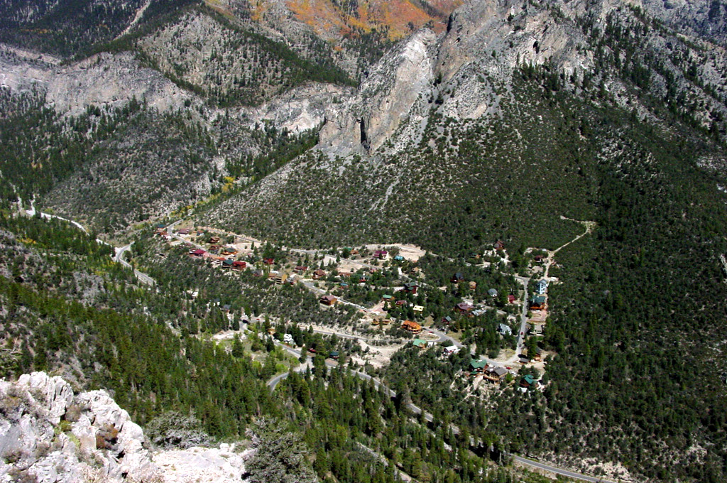 Looking northwest towards the town of Mount Charleston, Nevada